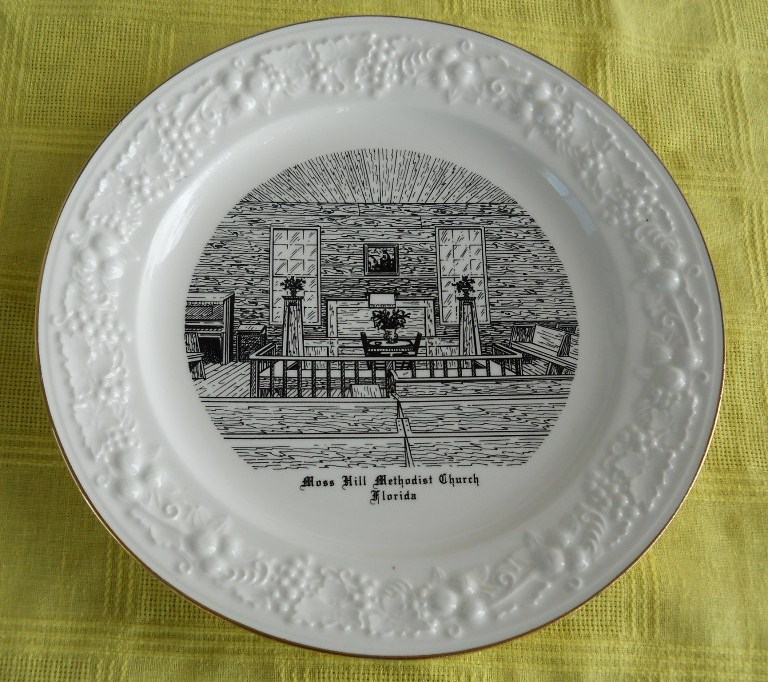 Commemorative church plate: Interior of Moss Hill Methodist Church, near Vernon, Washington County, Florida